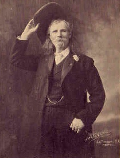 Captain Jack Crawford Other information No.